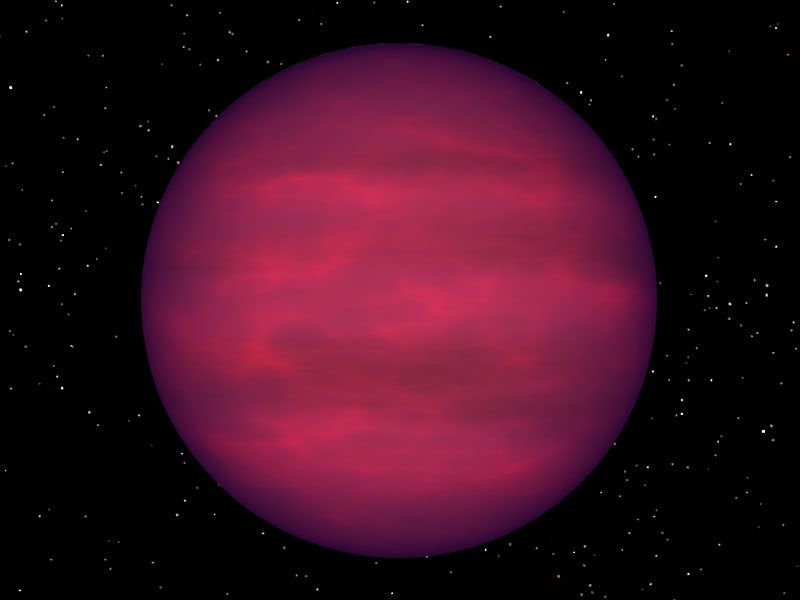 Snapshot and fix of an artists impression of a late M-star, L-star and a T-star.